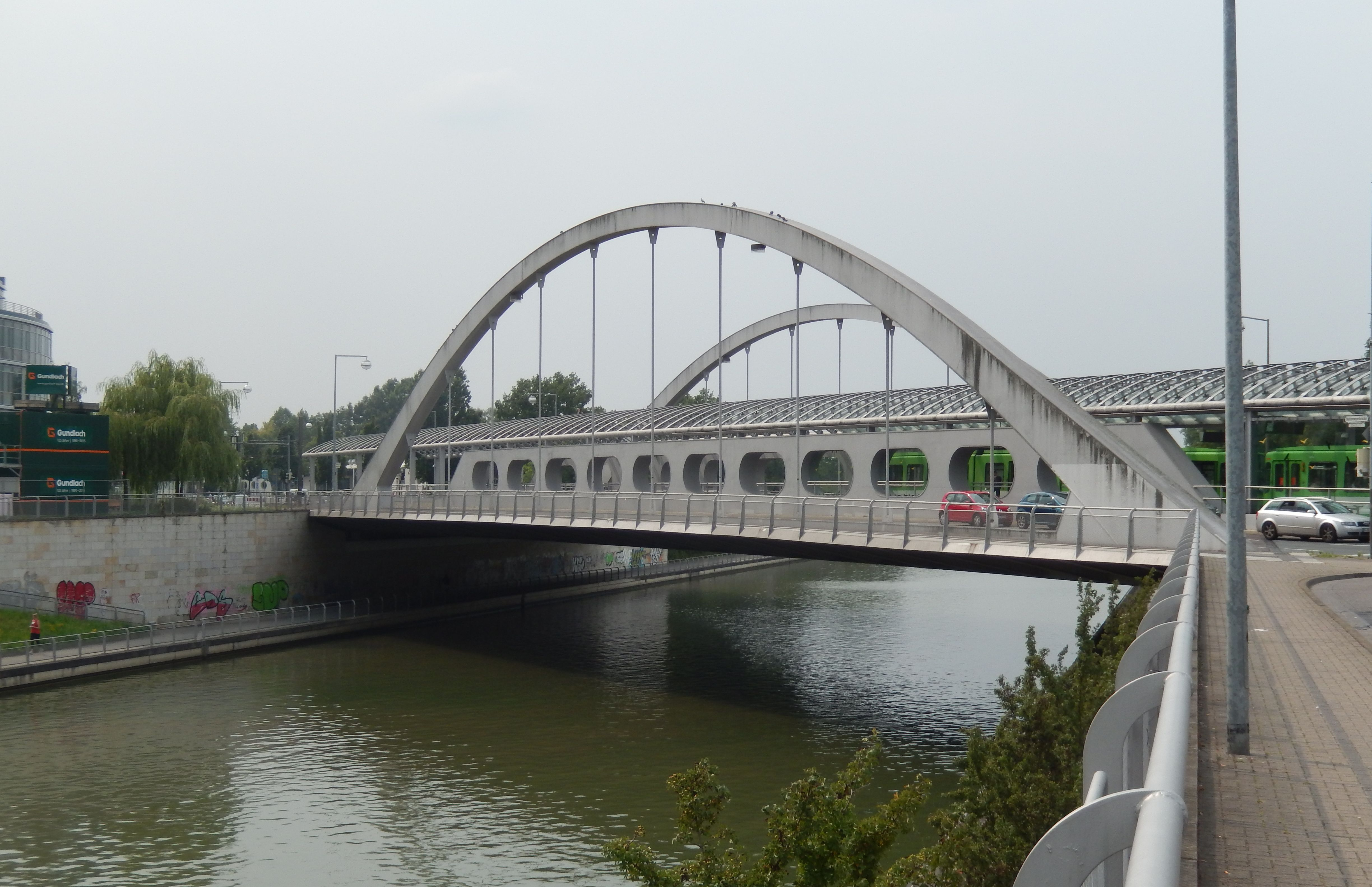 Bridge Noltemeyerbrücke in Hannover, Germany.